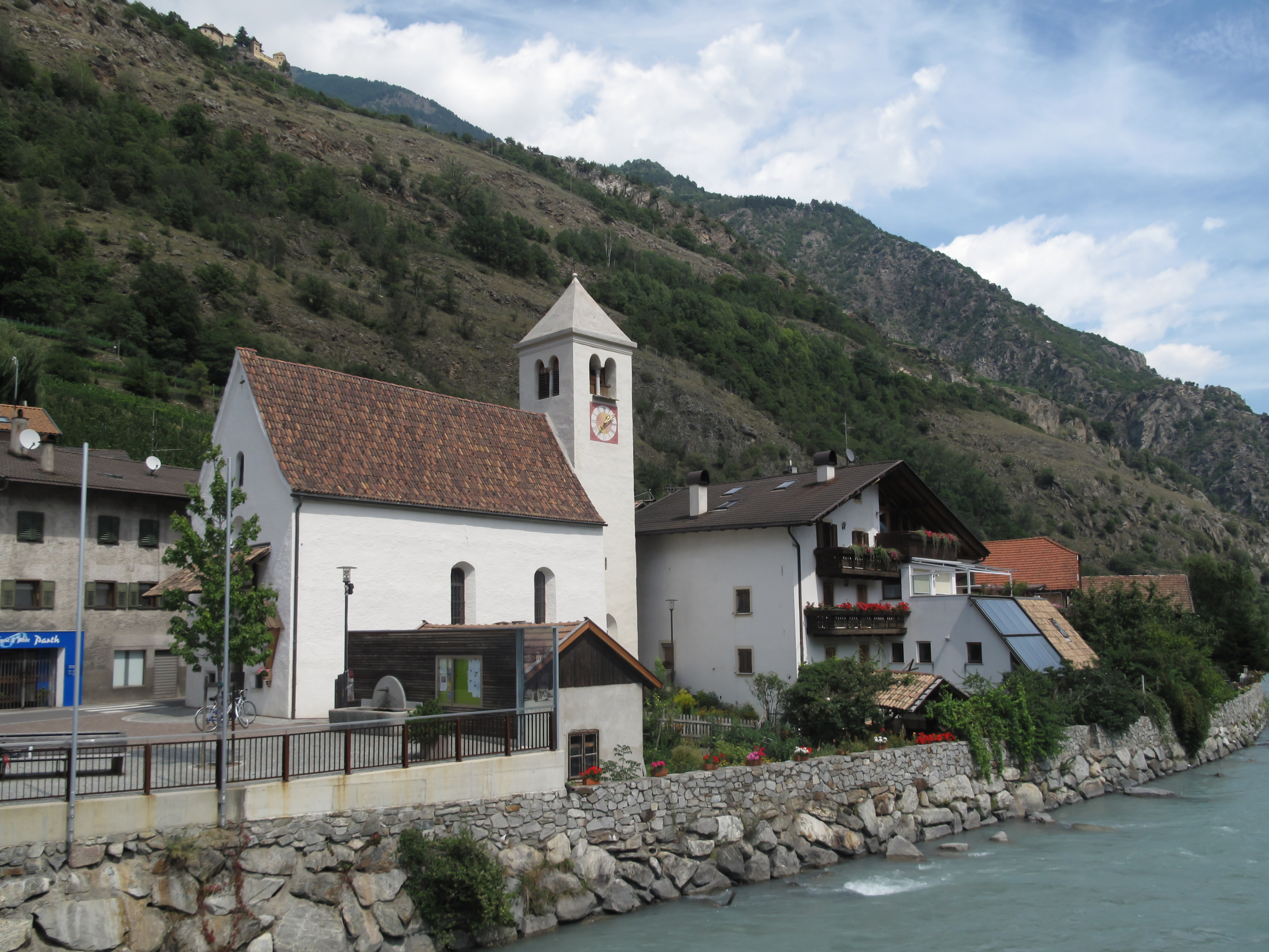 Staben, church: die Liebfrauenkirche